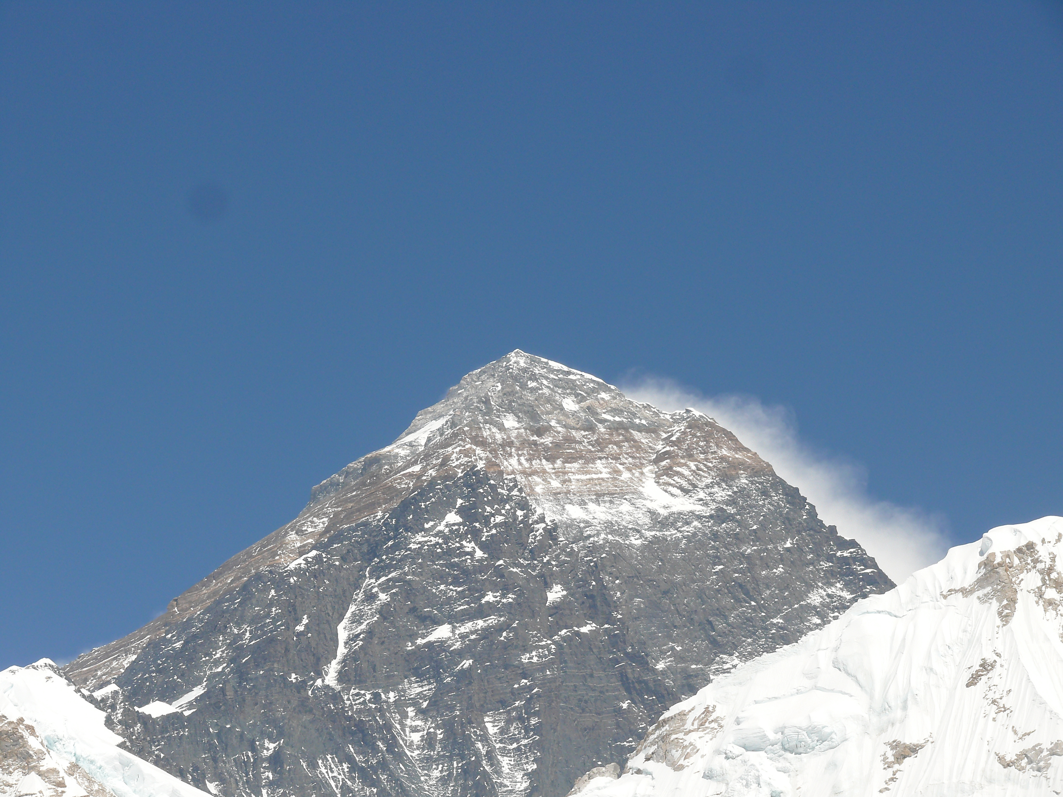 Everest Base Camp from Kala Patther